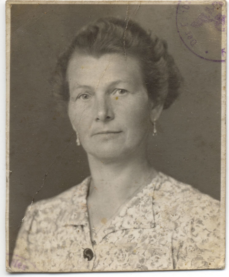 Anna Goldsteiner (June 17th, 1899 in Vienna - July 5th, 1944 in Vienna) was an Austrian anti-Nazi resistance fighter.